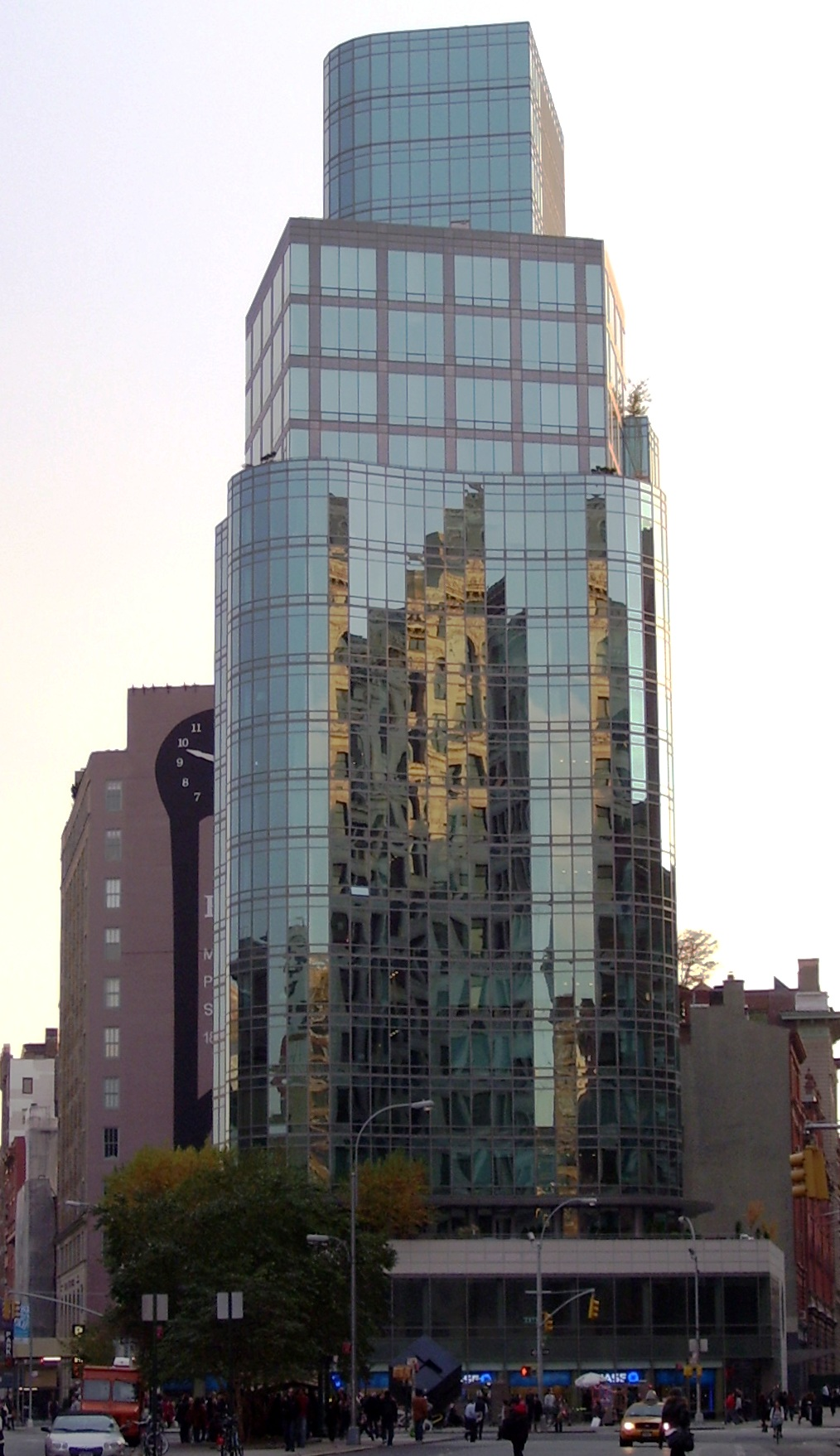 The triangular lot where Lafayette Street and Cooper Square come together at Astor Place was a parking lot for many decades. This condominium bulding, designed by Charles Gwathmey, was completed in 2004, and designated 445 Lafayette Street. It is also known as the Astor Tower.